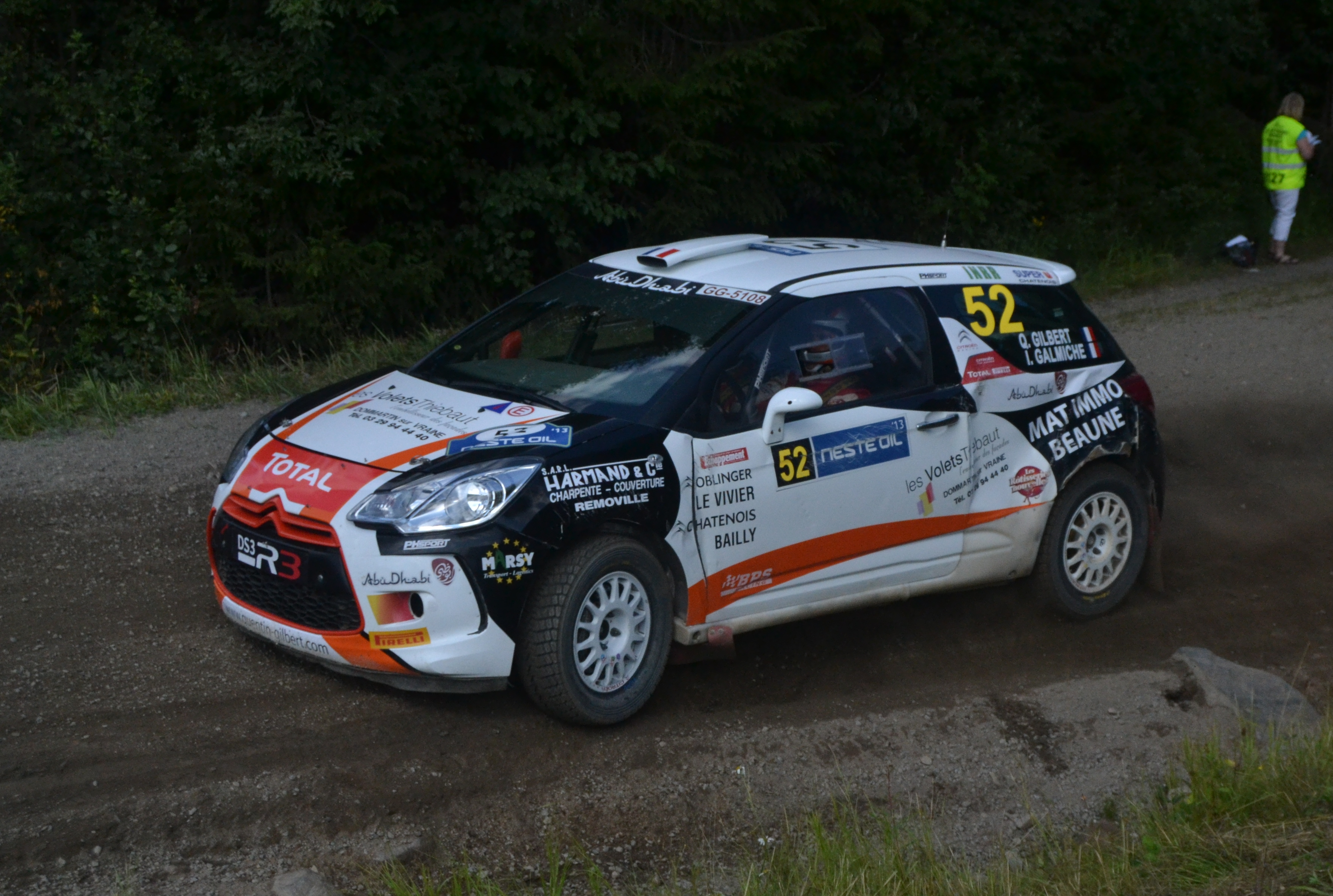 Quentin Gilbert at 2nd Surkee stage at 2013 Rally Finland